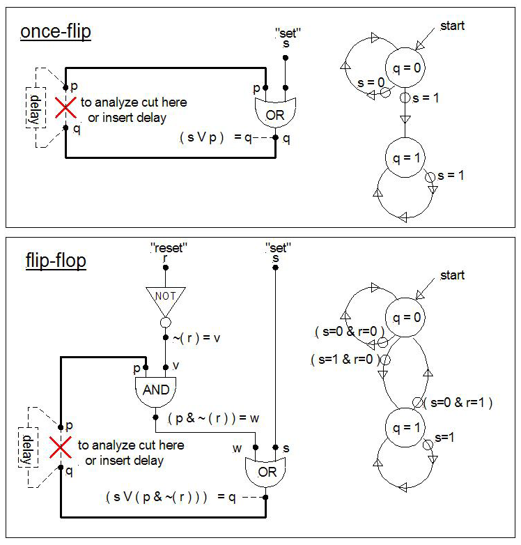 drawn by wvbailey in Autosketch as .jpg, imported into Adobe Acrobat and exported as .png